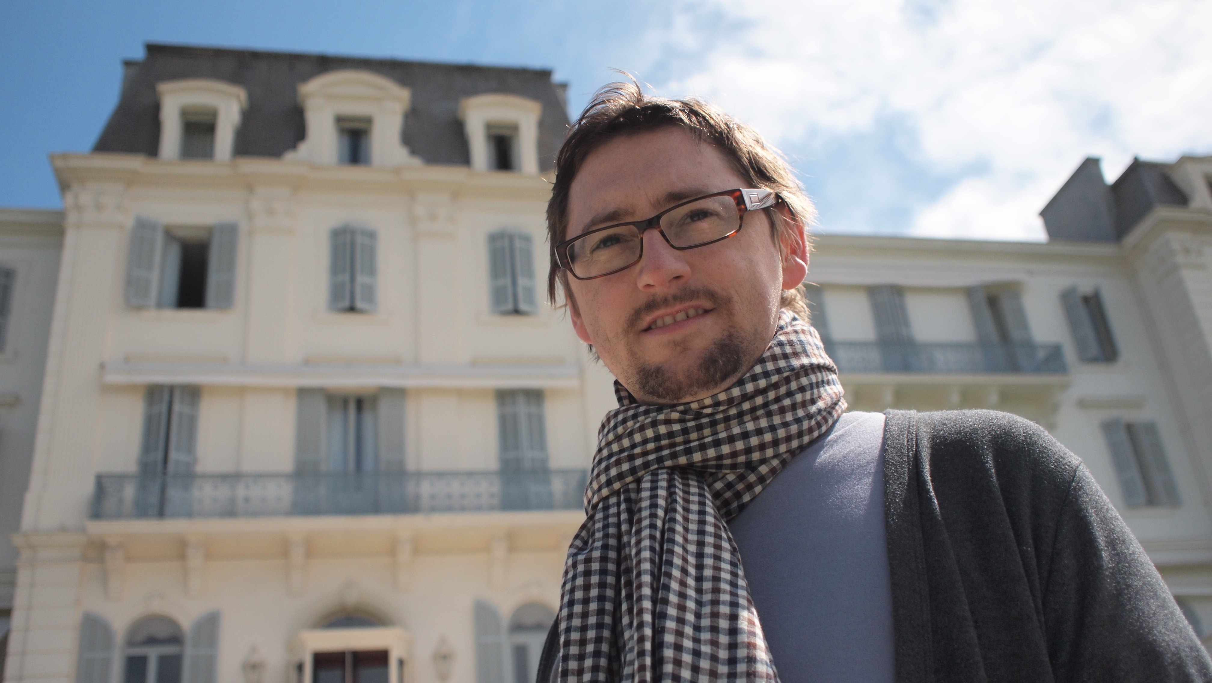 Artist portrait taken during The Marten Bequest Travelling Scholarship 2007